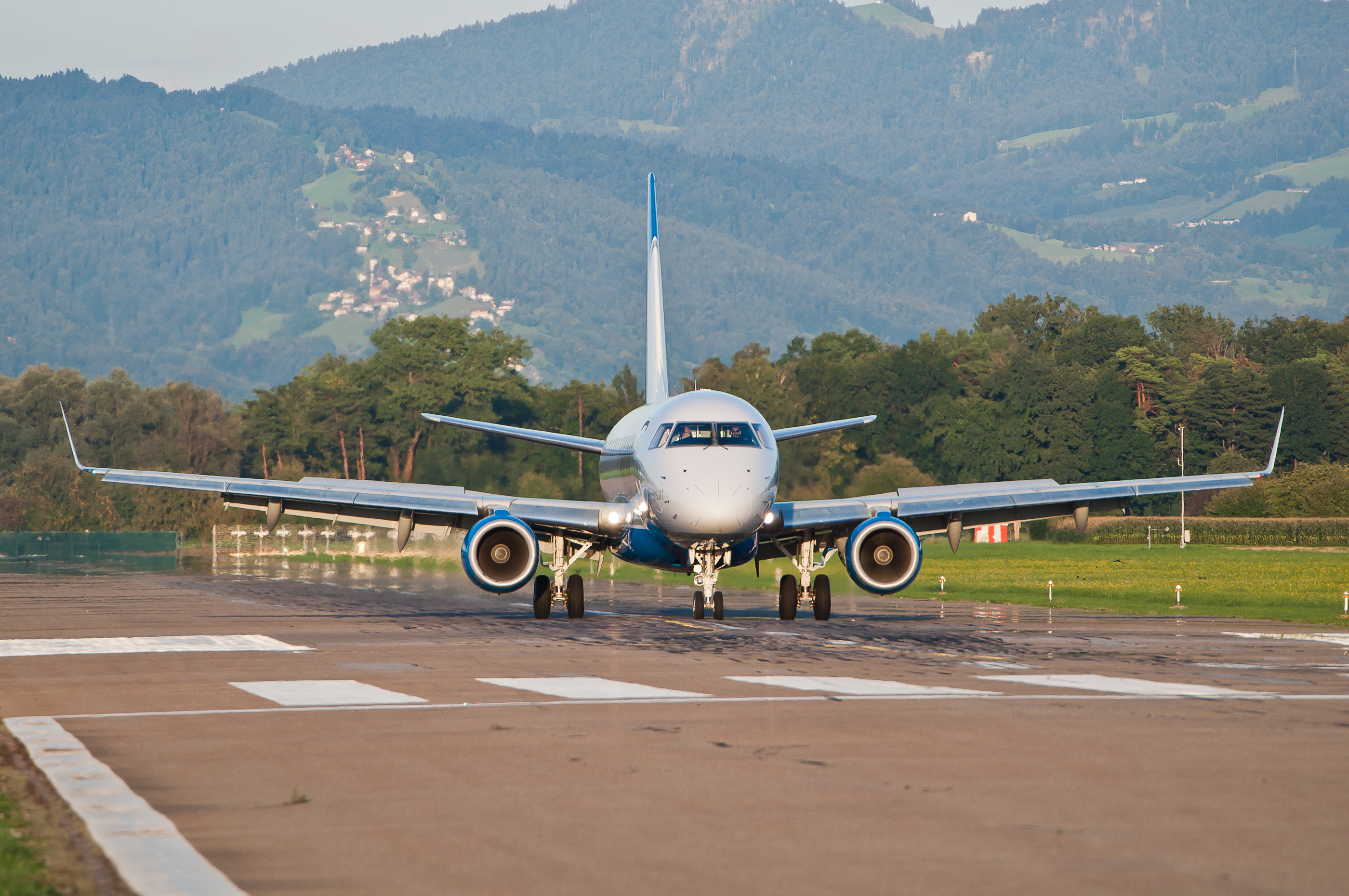 People’s Viennaline Embraer E-170-100, Registration: OE-LMK landing at St. Gallen-Altenrhein Airport (LSZR)